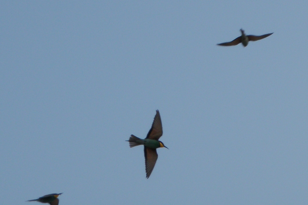 Bee-eaters hovering in flight